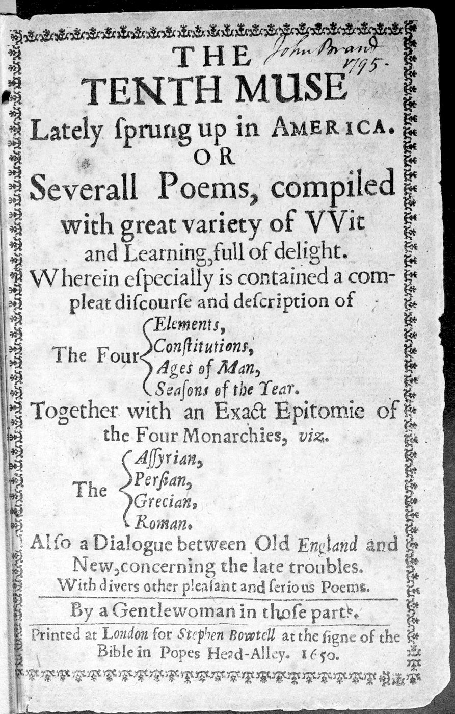 "The Tenth Muse," a collection of poems and writings by American poet Anne Bradstreet.